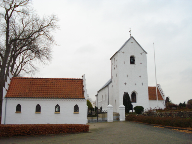 Daugård Church